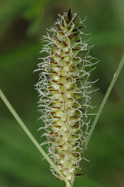 Carex rostrata from Commanster, Belgian High Ardennes .